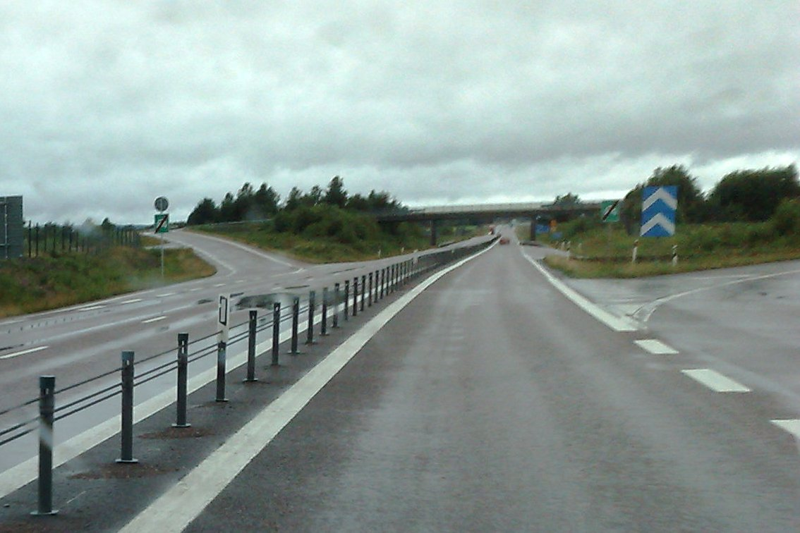 At the entrance of a banked curve - see opposite lane - the Drainage Gradient is insufficient. This has resulted in a large water puddle causing high skid risk.